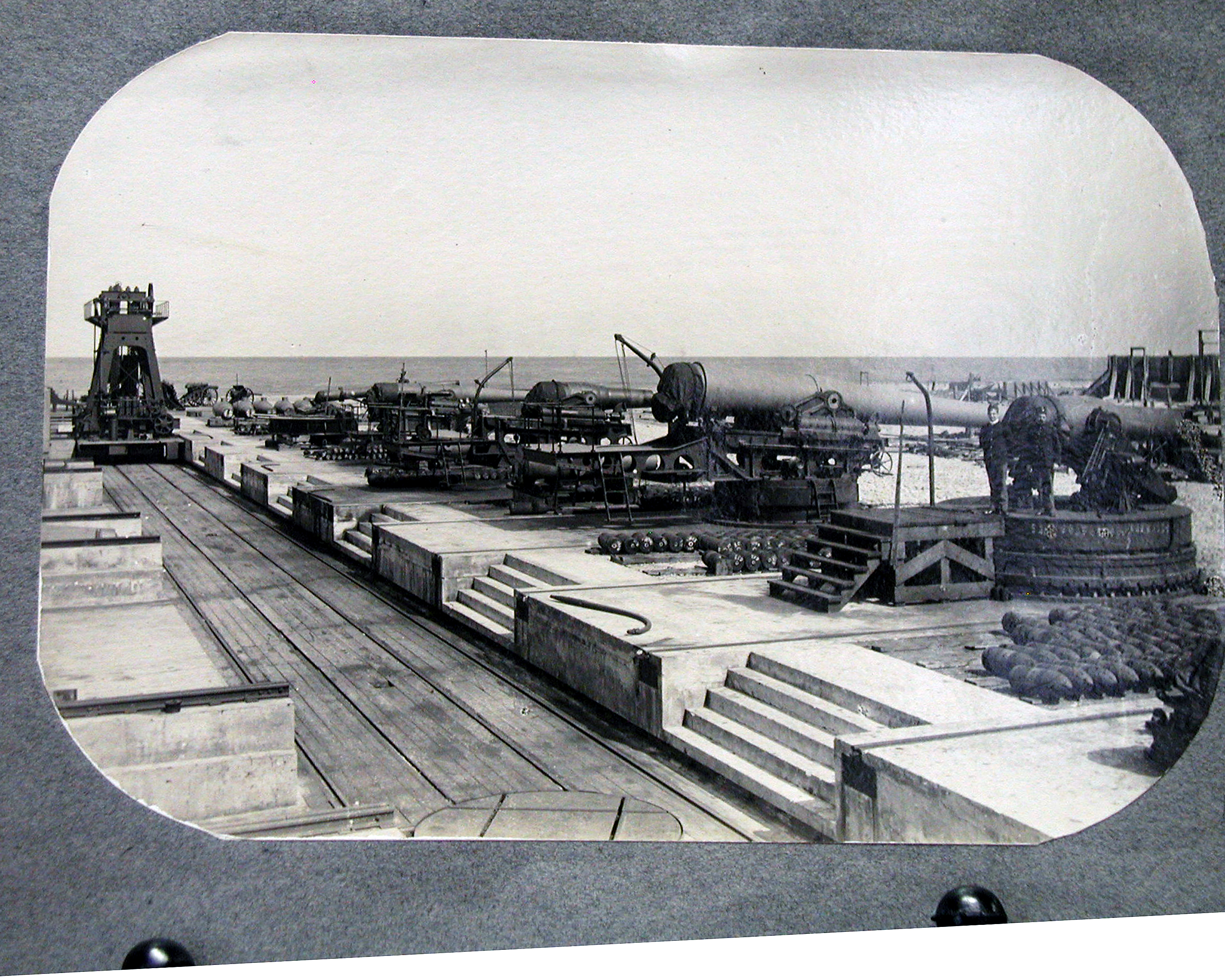 Sandy Hook proof battery around 1900. The second gun from the right is a 12-inch gun M1888 on barbette carriage M1892, the third gun from the right is an 8-inch gun M1888 on barbette carriage M1892.